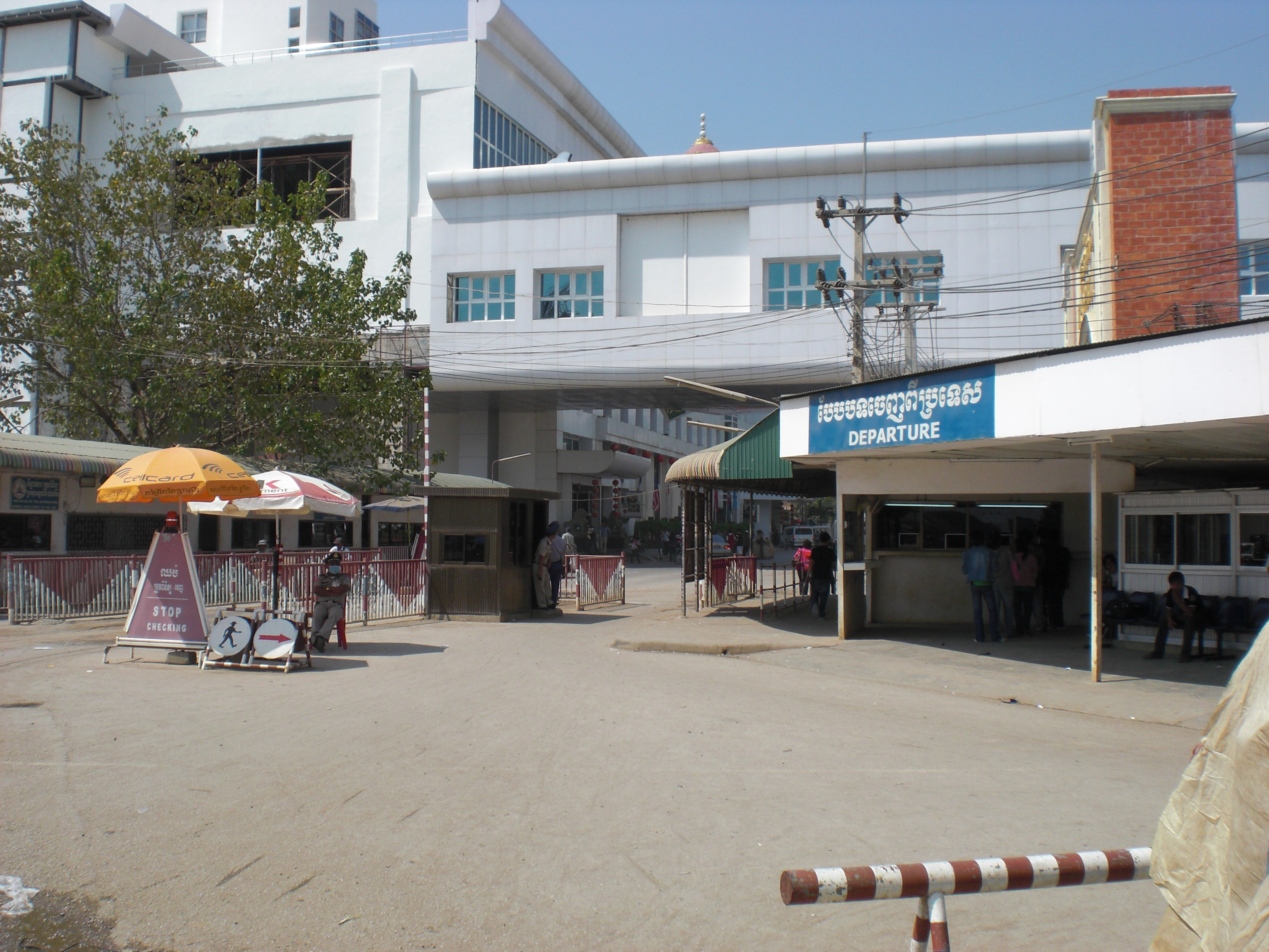 Cambodian boundary post in front of the Casino area in direction to Thailand